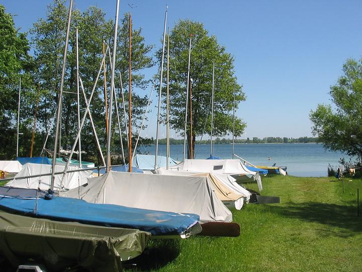 Parsteiner See nearby the peninsula Pehlitzwerder. The Parsteiner See is a finger lake (proglacial lake) in Germany, Brandenburg, District Barnim, and covers 10,03 km².